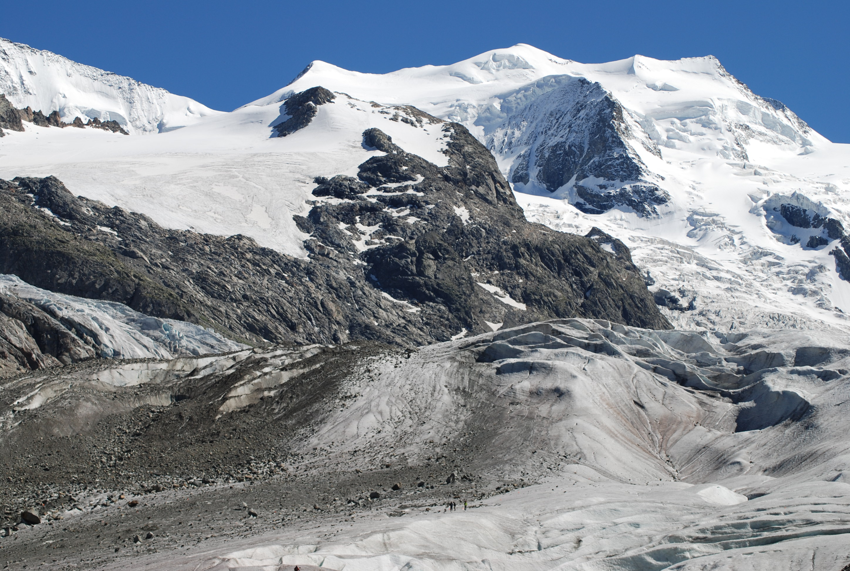 Surface of the Morteratsch glacier with "Isla Persa" and with Bellavista in background.